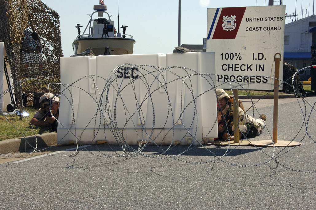 PORTSMOUTH, Va. - Seaman Edward Creech and Petty Officer 1st Class Luis Rivera simulate stopping an attack on an entry control point during a demonstration at Integrated Support Command Portsmouth, Va., June 24, 2008. Creech and Rivera are both members of Coast Guard Port Security Unit 305 based out of Fort Eustis,Va., which participated in demonstrating its capabilities to the Homeland Security Advisory Council during its visit to the ISC. (Coast Guard photo/Petty Officer 2nd Class Nathan Henise)